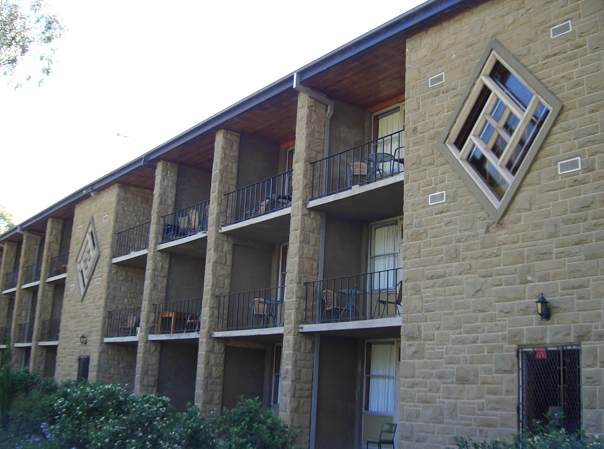 The Donovan building of Newman College, University of Melbourne, has a distinctive glass design on the side of the building facing the courtyard.